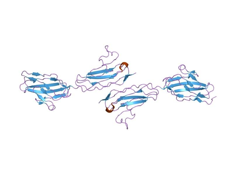 Cartoon representation of the molecular structure of protein registered with 1nbq code.